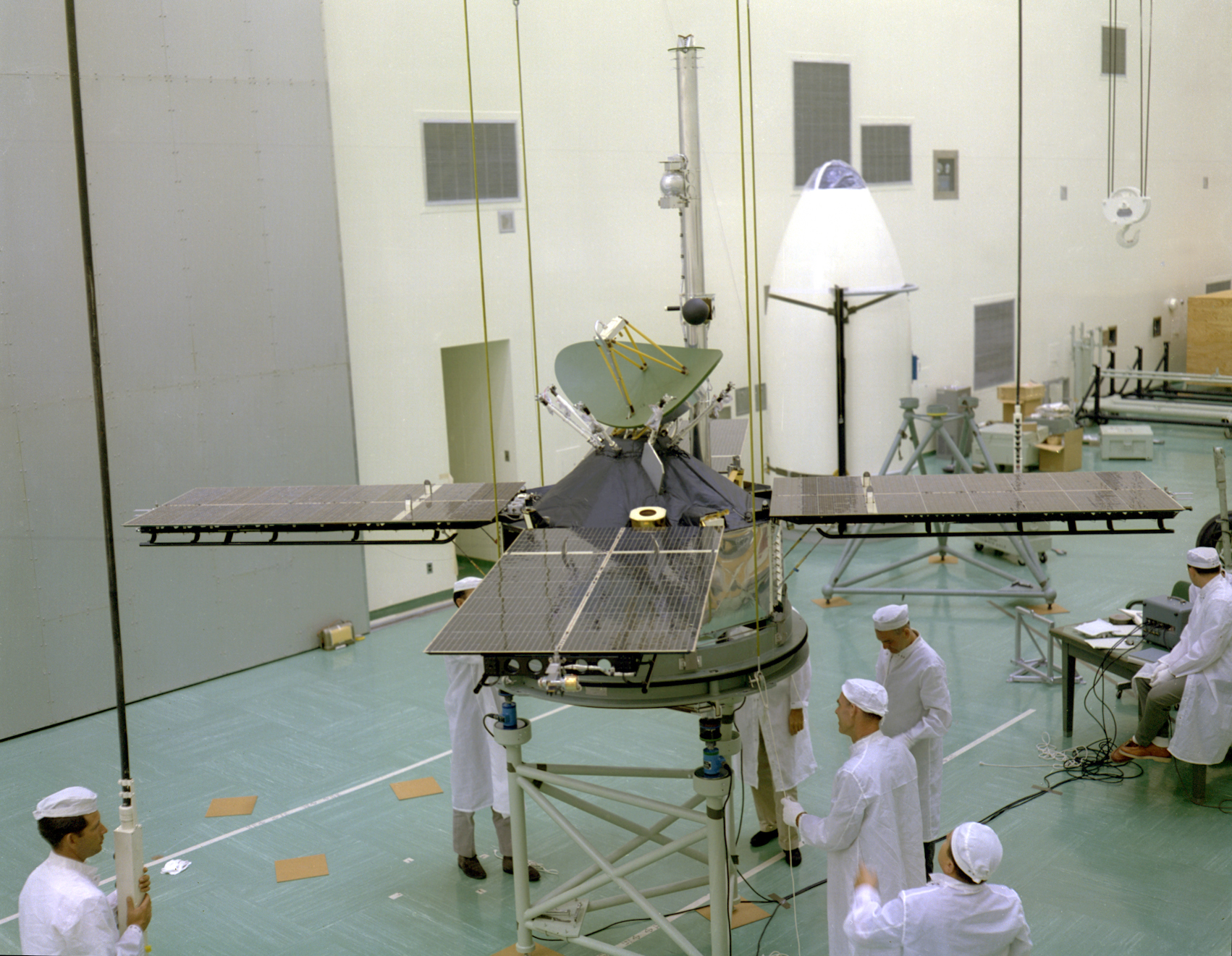 Mariner 4 is prepared for a weight test before launch to Mars.